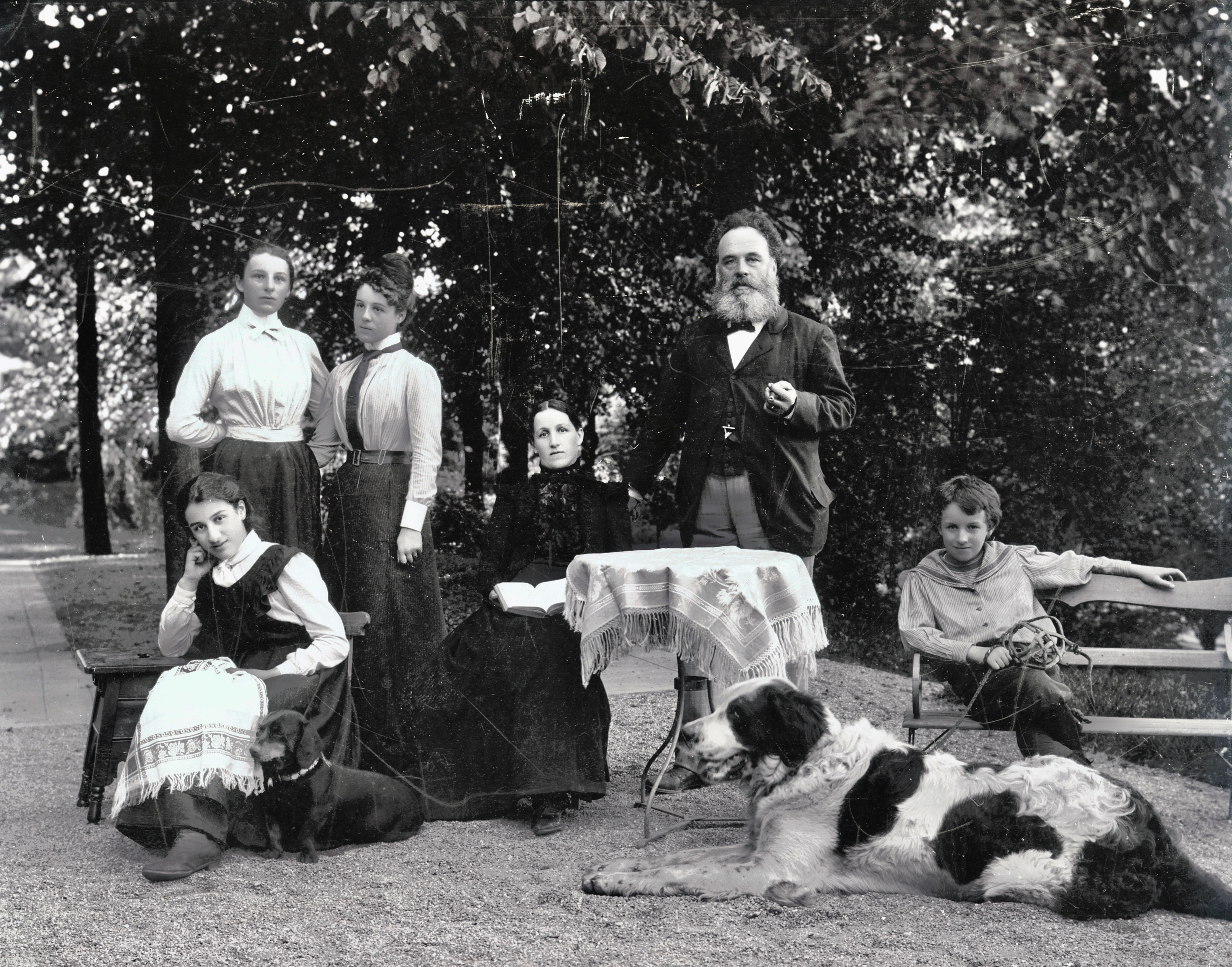 Family of the industrialist (Frankenthalsche Zuckerfabriken = Frankenthal sugar factories) and councilor of commerce Christoph Friedrich Fanck (1846–1906), standing in the middle, and his wife Karolina Ida (1858–1957), née Paraquin, sitting on his right. Arnold Heinrich Fanck (1889–1974) sits on the right of the picture holding the family dog on a leash. The young ladies on the left are from th left to the right: Ernestine Elisabeth Fanck (* March 23,1888; † April 15, 1940), Helene Fanck (* November 21, 1886; † December 4, 1979), and Marie Fanck (* August 24, 1882). The sibling Ernst (* January 18, 1884; † July 31, 1884) had already died during his infancy.